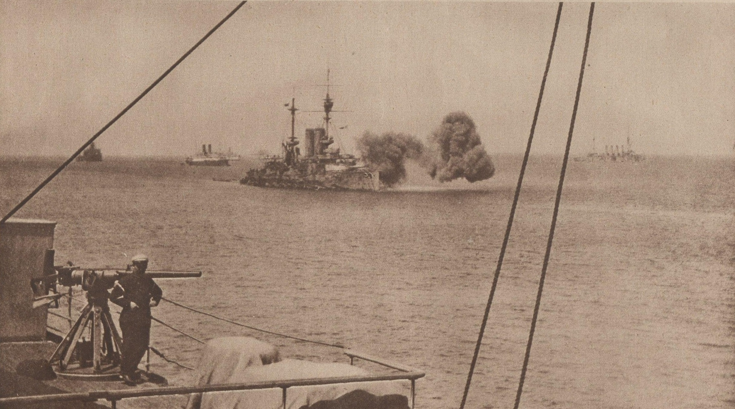 Rough translation : "The battleship HMS Cornwallis bombarding the village of krithia ." Patriotic Comment: This photograph was taken from the French cruiser Provence at the time of the British naval artillery fire. During the Allied landings on both sides of the Dardanelles , the fleet had the same role as artillery when it " sprinkles " the enemy trenches to allow the infantry to attack with the bayonet. Our sailors are filled with a deep admiration for their comrades in the army and they are full of praise for the accuracy and the effects of the bombing of the fortifications of the coast by warships . Anglo- French fleet conducts indirect fire over the Gallipoli peninsula , following the information provided by aviation. The battleship HMS Cornwallis bombed the village of Krithia to protect the advance of the English landing . Photo published by the weekly The Mirror of 23 May 1915.